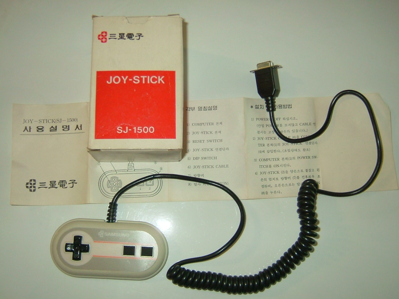 Samsung Electronics joystick SJ-1500 for SPC-1000/1500 series.